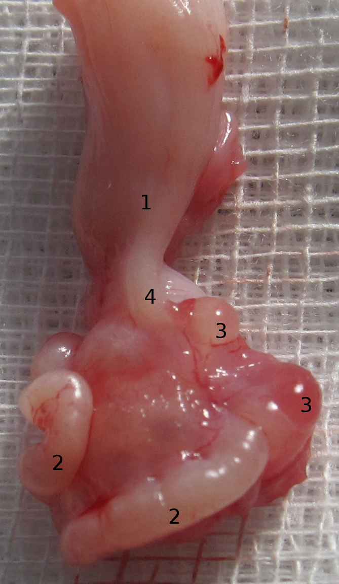 uterustip (1) and oviduct (2) of a cat, 3 Paroöpheron, 4 Lig. ovarii proprium